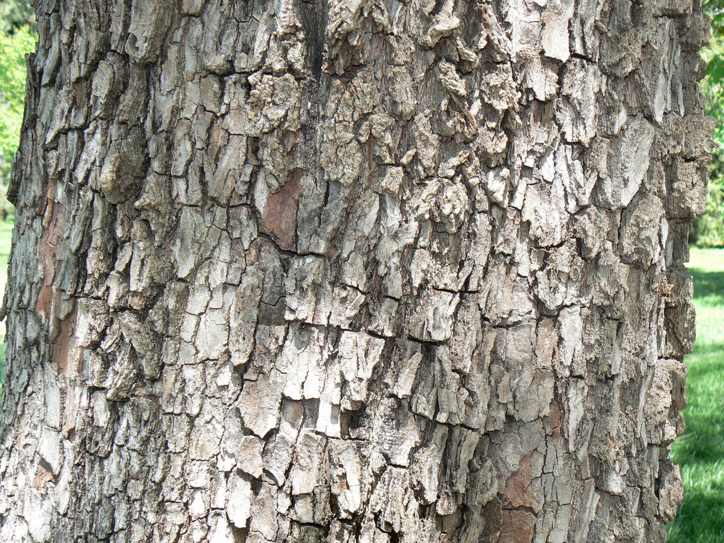 American Persimmon (Diospyros virginiana) bark detail